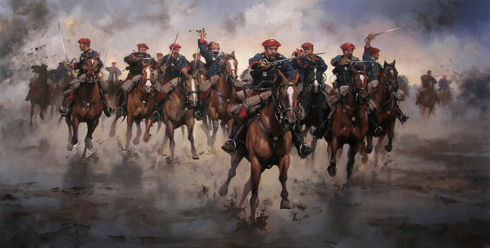 Carga del Escuadron Real de Carlos VII, Ferrer Dalmau